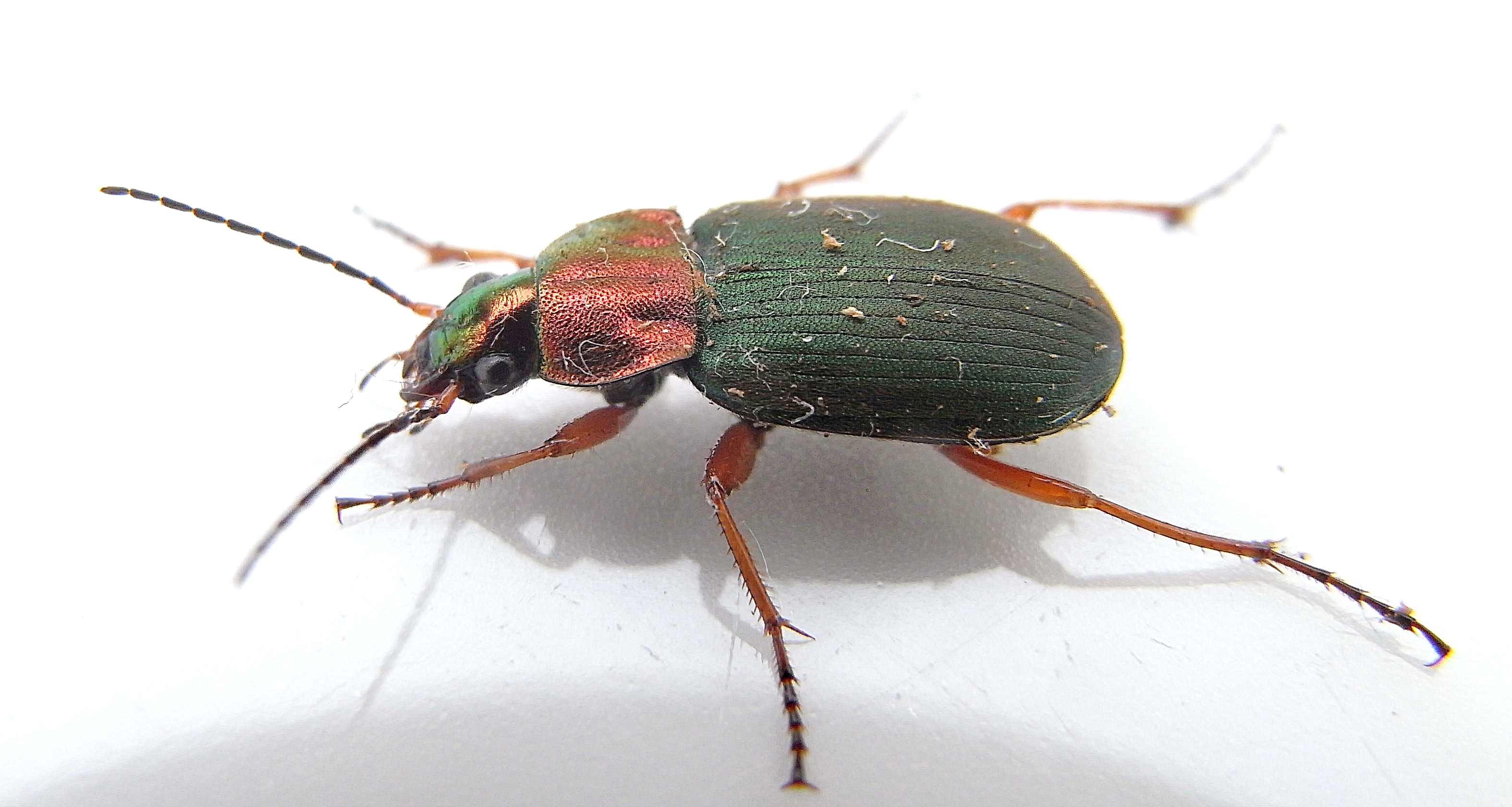 Chlaeniellus nigricornis from Hungary at 2010-05-30 near Mezötur Ricoh R8